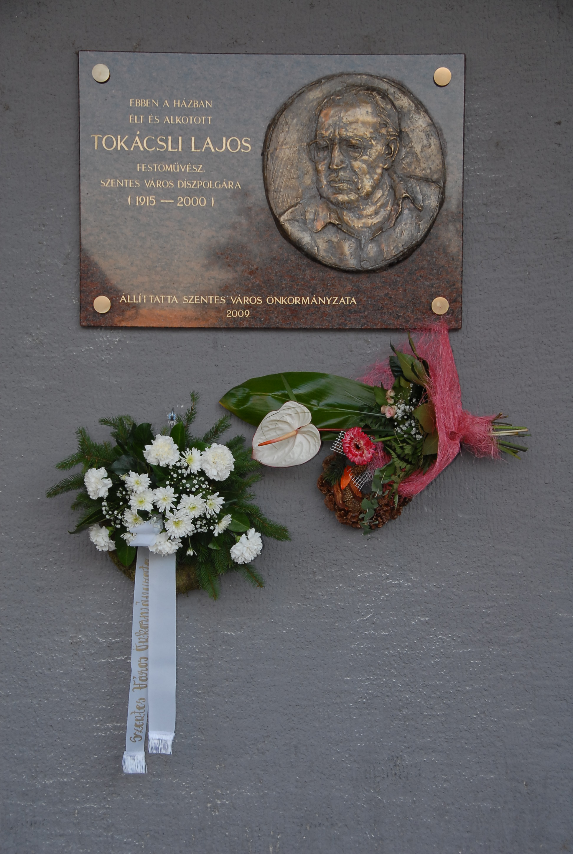 memorial plaque of Tokácsli Lajos (1915-2000) painter